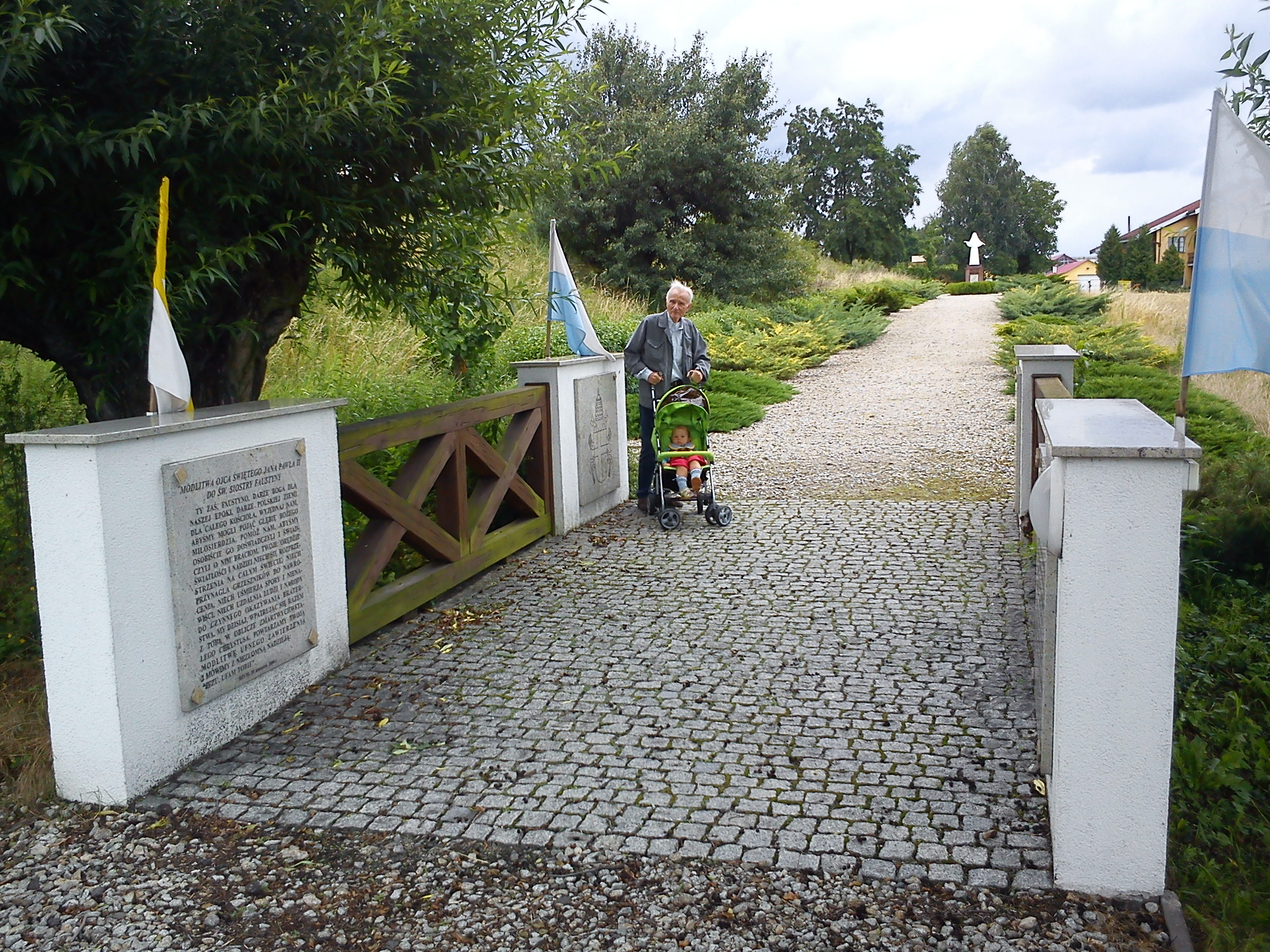 Faustyna Kowalska Way in Kiekrz.